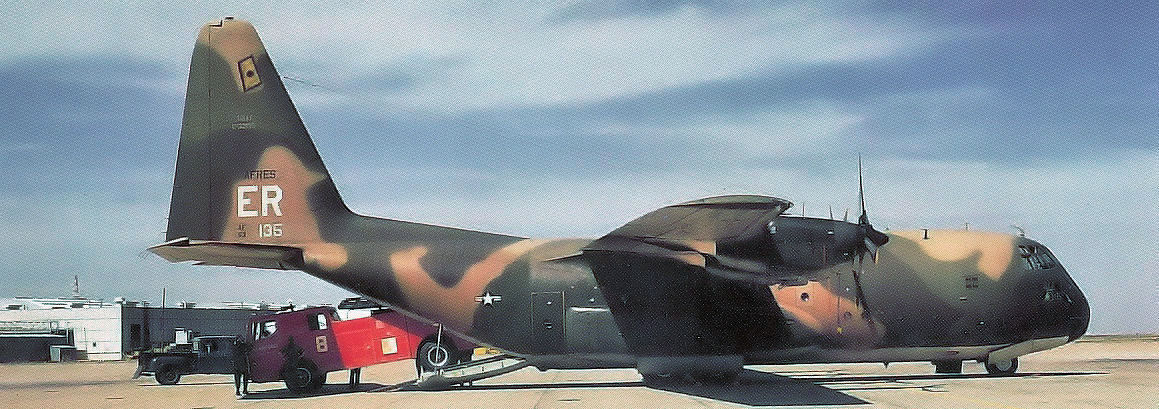 C-130A of the 705th Tactical Airlift Training Squadron, Ellington AFB, Texas Lockheed C-130A-LM Hercules 53-3135